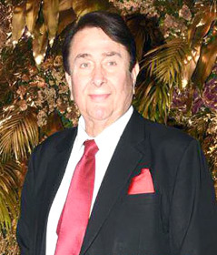 Randhir Kapoor at Armaan Jain's wedding reception